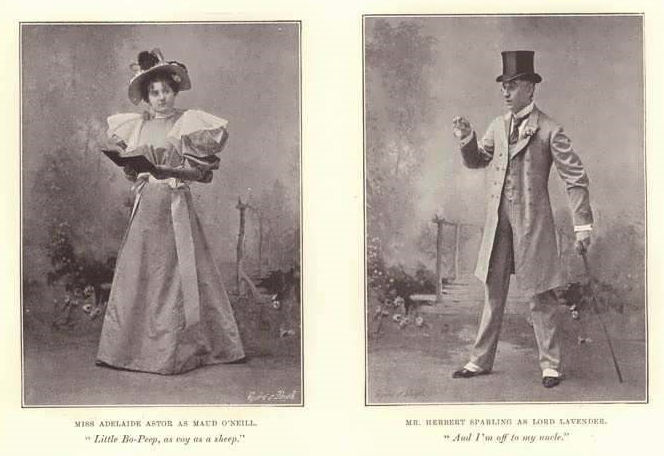 Photographs of 'The Lady Slavey' scanned from 'The Sketch' 28 November 1894 pg. 4